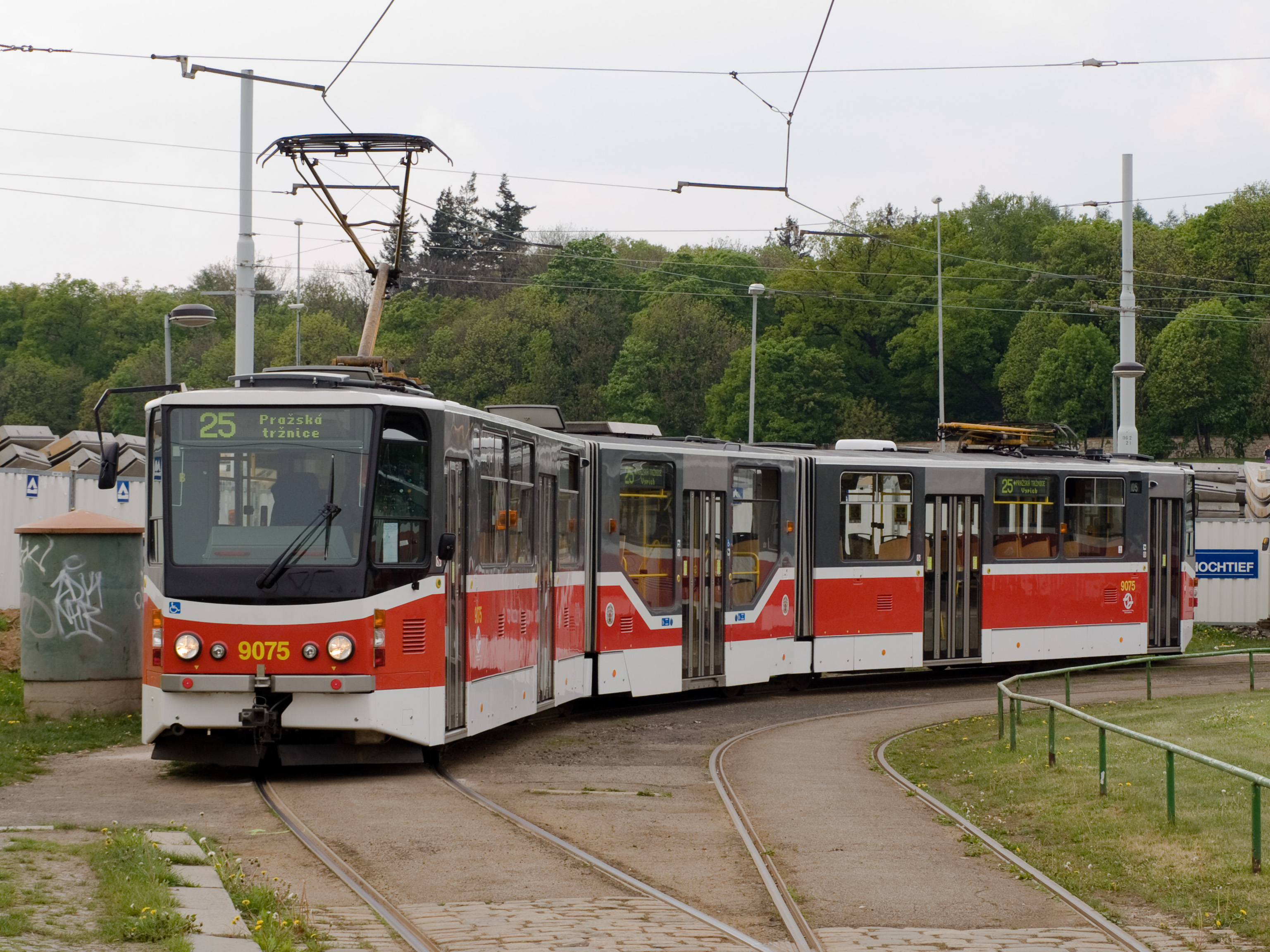 Tatra KT8D5R.N2P, tram loop Vypich, Praha